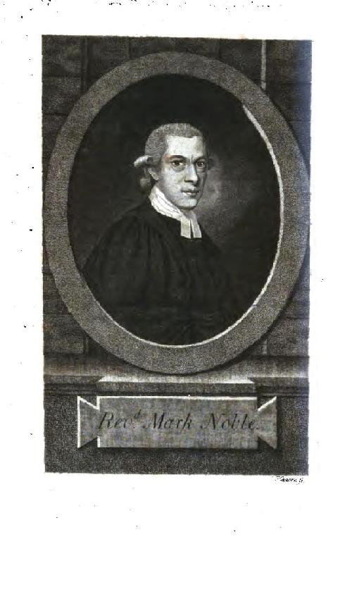 Portrait of Mark Noble (1754–1827), English clergyman, biographer and antiquary.